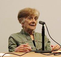 Frances Fox Piven, at conference "Walmart and Its Discontents", at Columbia University, in 2012